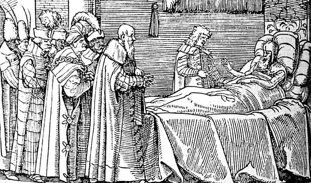 16th century German engraving of Skanderbeg's death